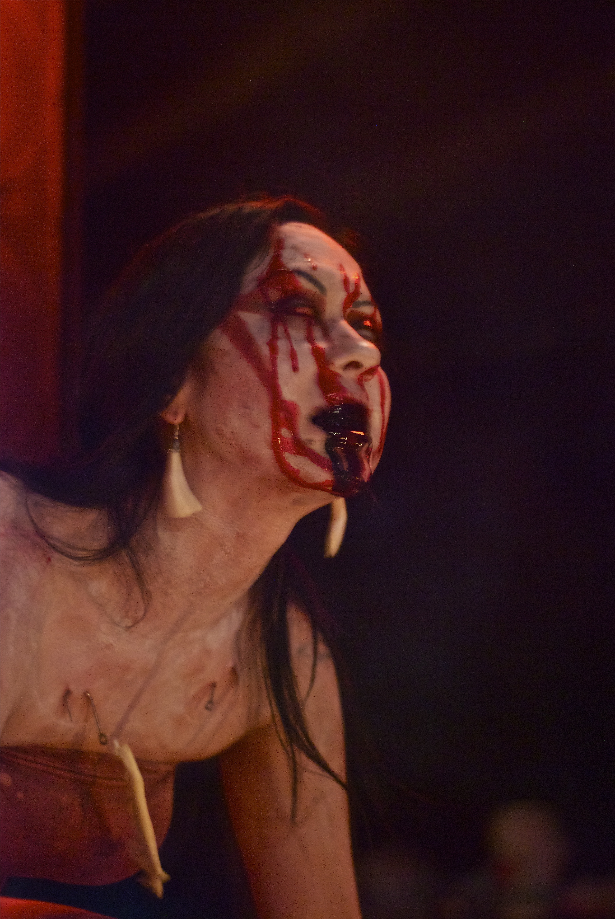 Jeanelle Mastema performs at Black Castle in Inglewood, California on May 3, 2013